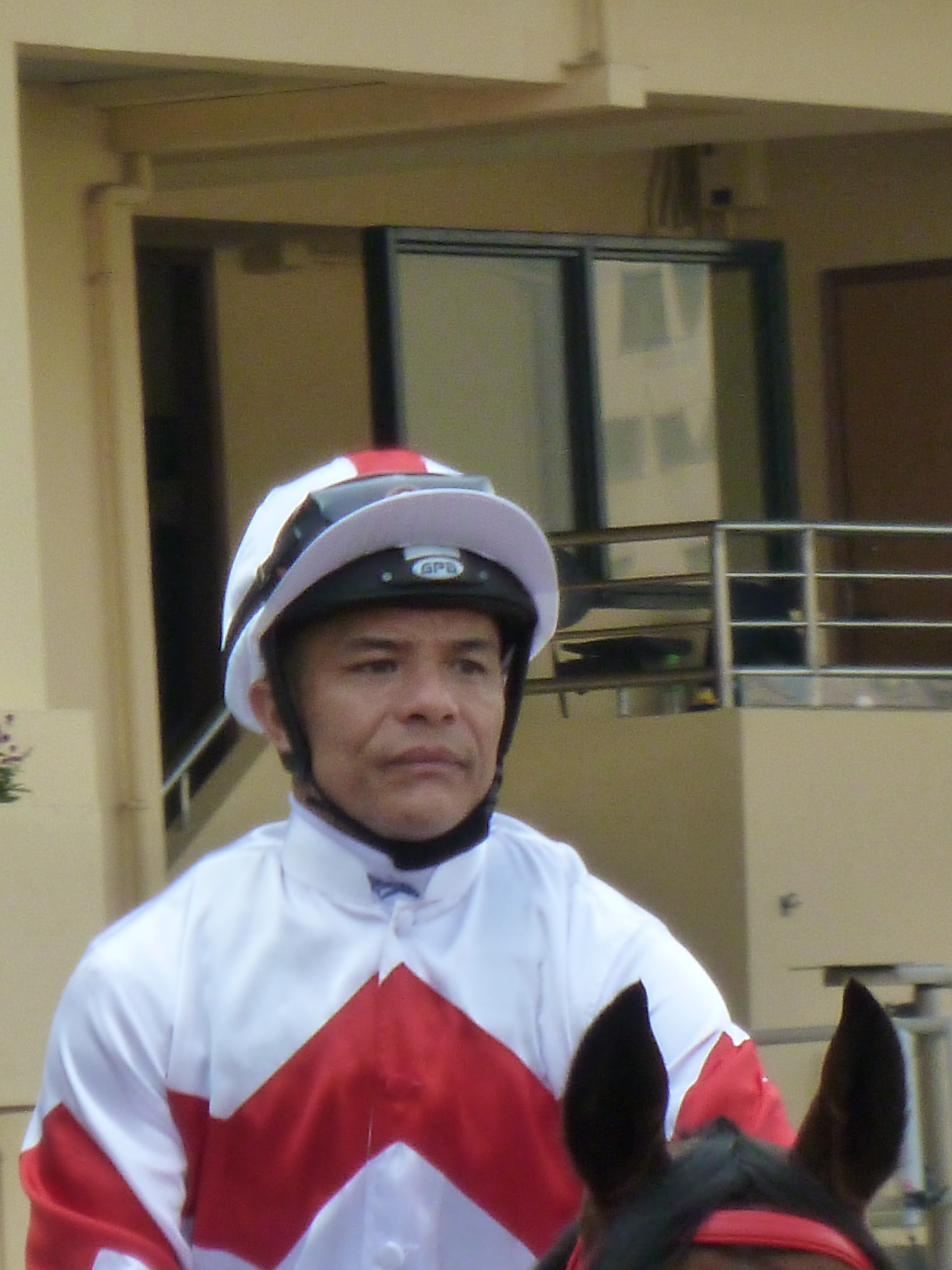 Weichong Marwing (20 Oct 2013, Happy Valley Racecourse) 中文（香港）: 馬偉昌 (20 Oct 2013, 跑馬地日馬)